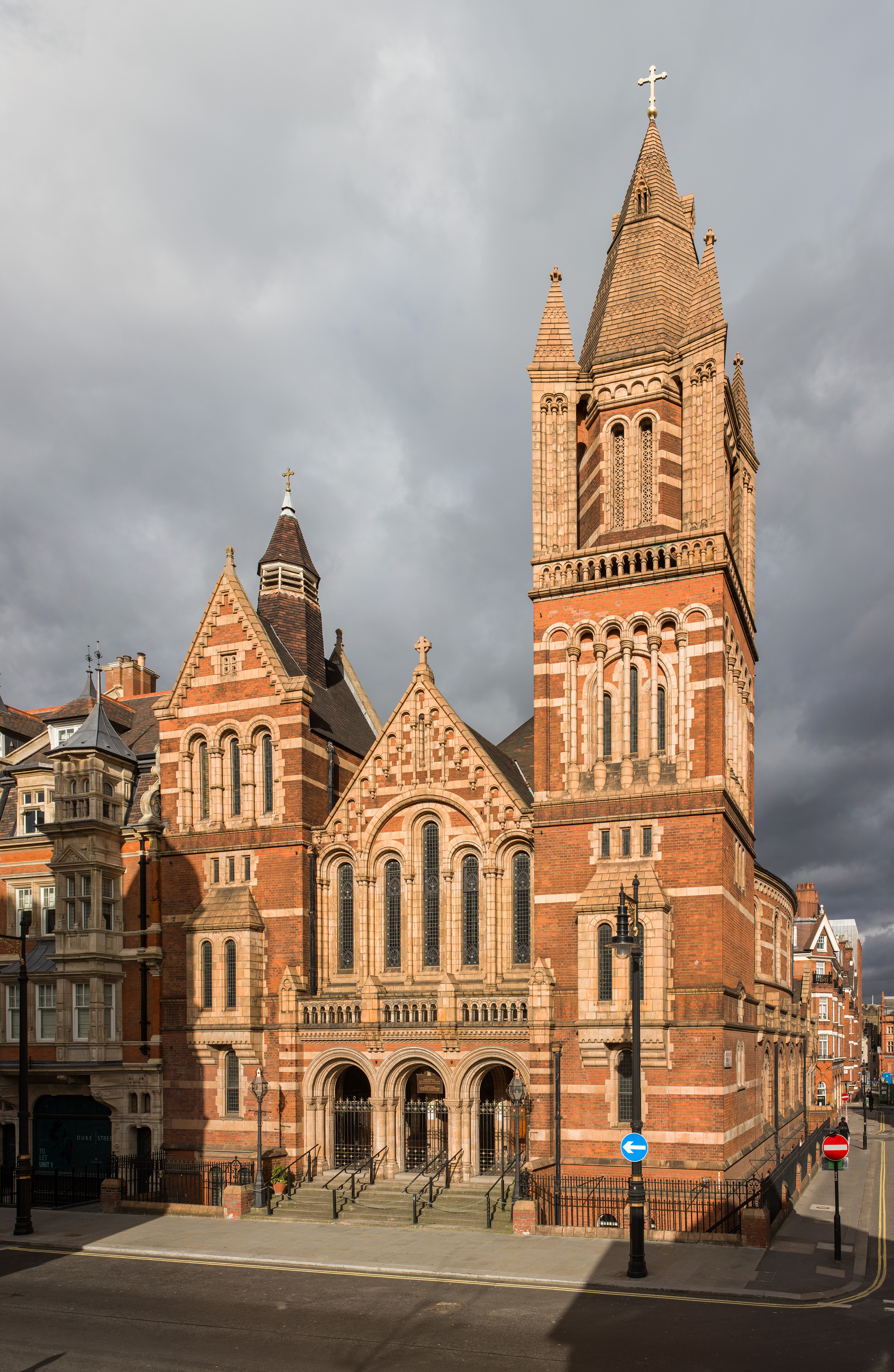 Ukrainian Catholic Cathedral of the Holy Family in Exile in London, England.